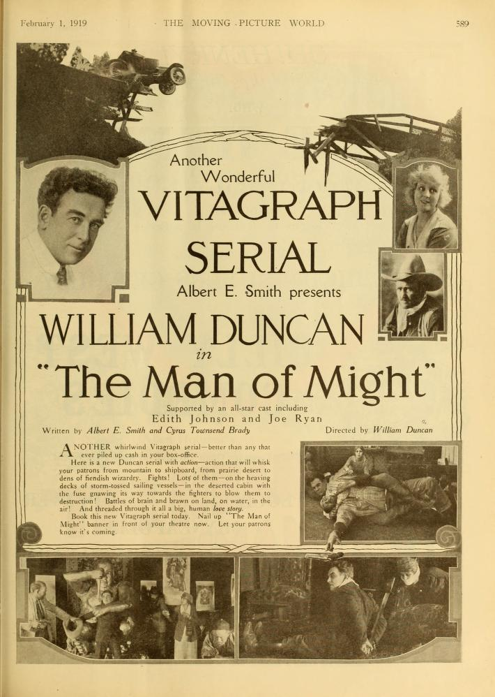 Advertisement, Moving Picture World for the film serial Man of Might (1919) with William Duncan, Edith Johnson, and Joe Ryan.